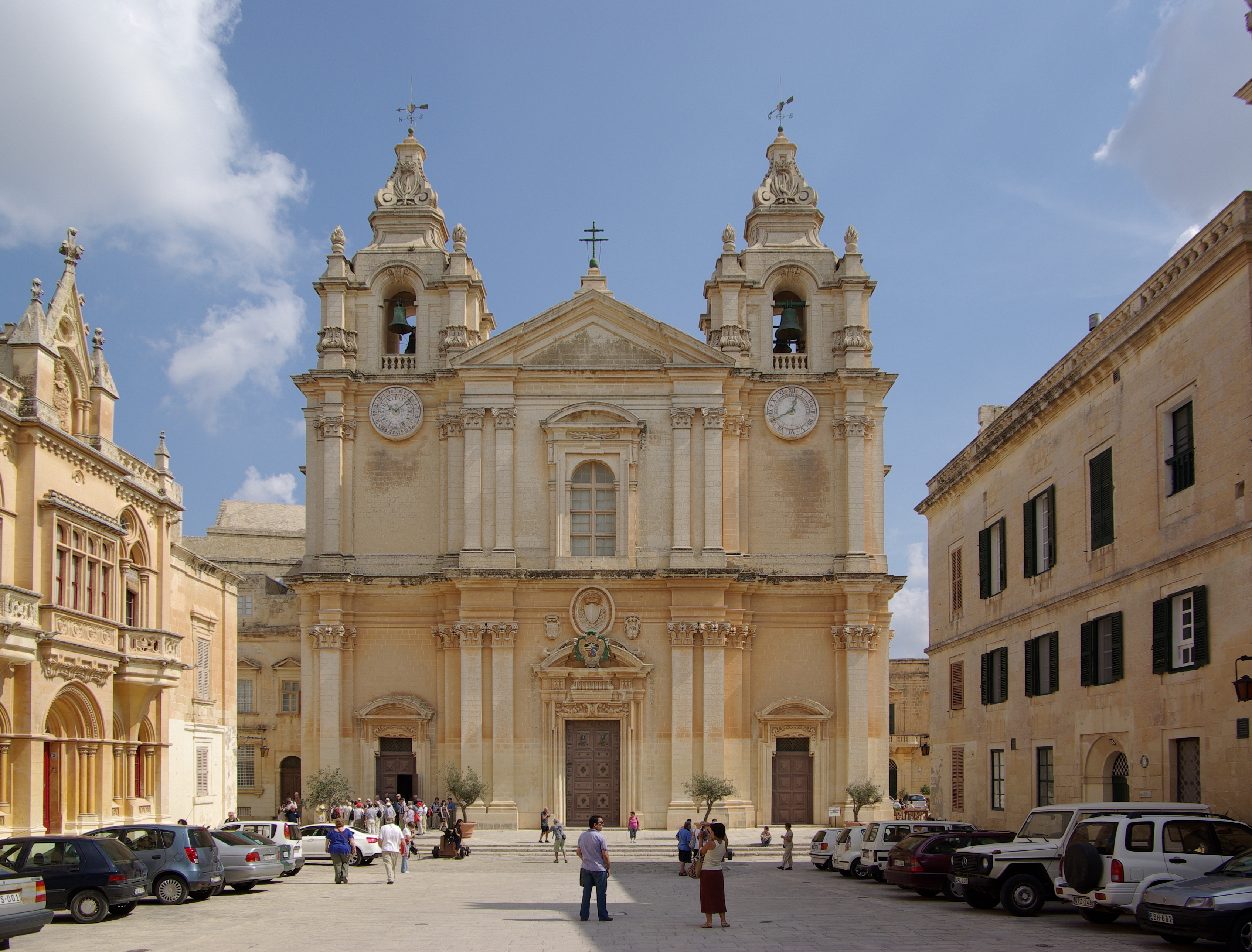 Malta, Mdina, Kathedrale St. Paul